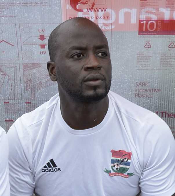 Profile picture of Mattar M'Boge in September 2016